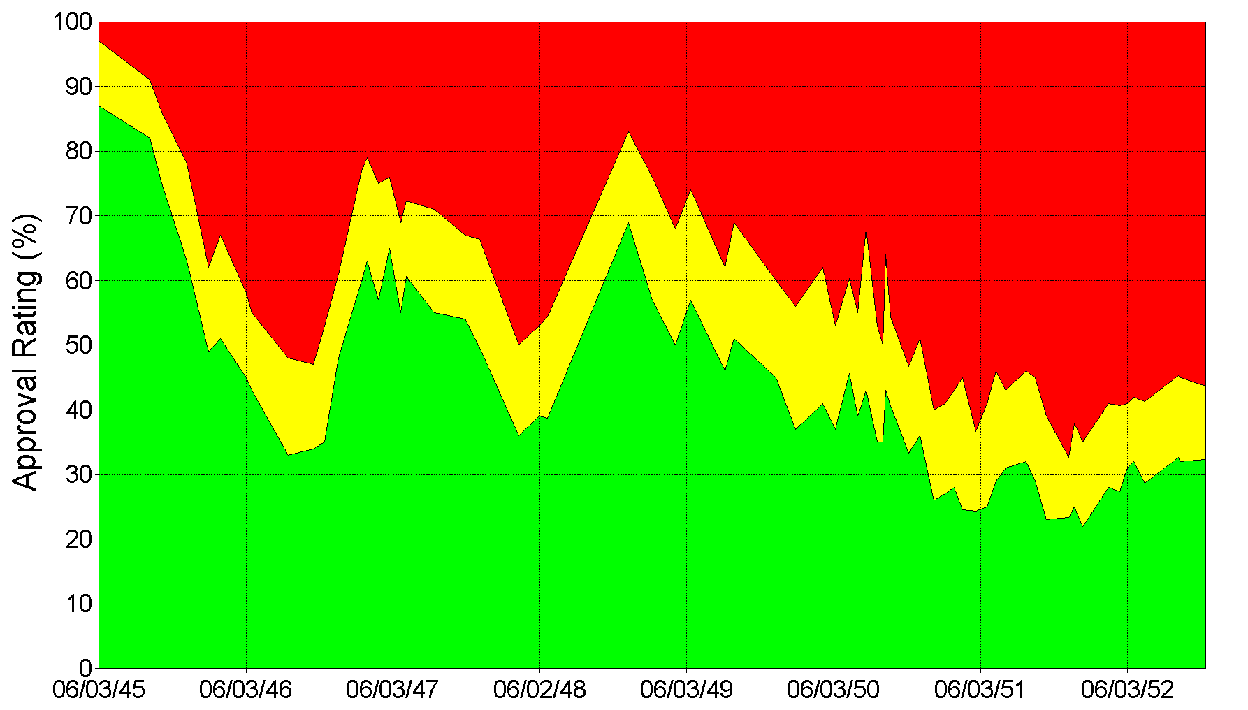 Approval Rating for President Truman. Gallup Poll.